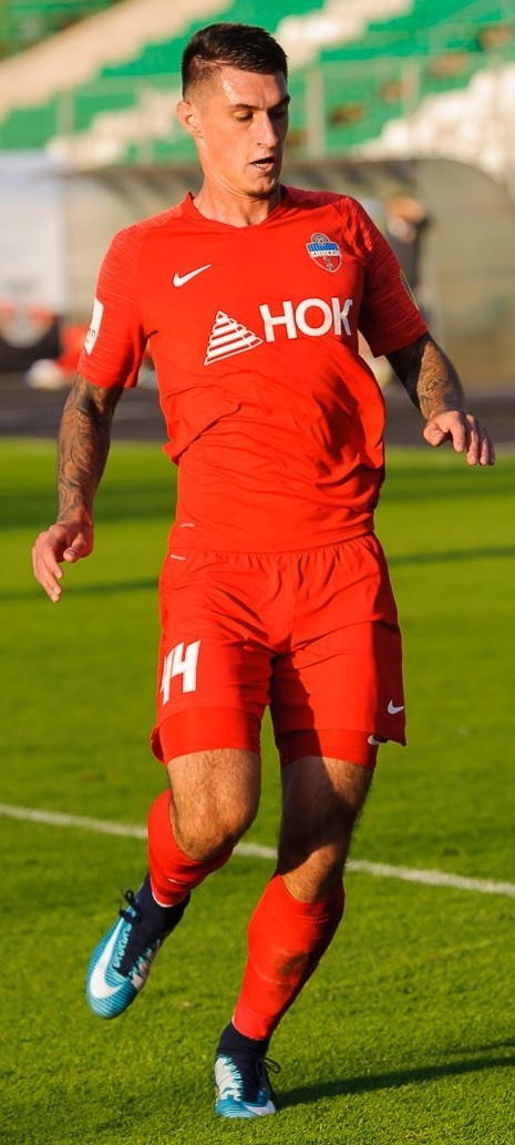 Danylo Sahutkin with FC Yenisey Krasnoyarsk in a game against FC Torpedo Moscow.